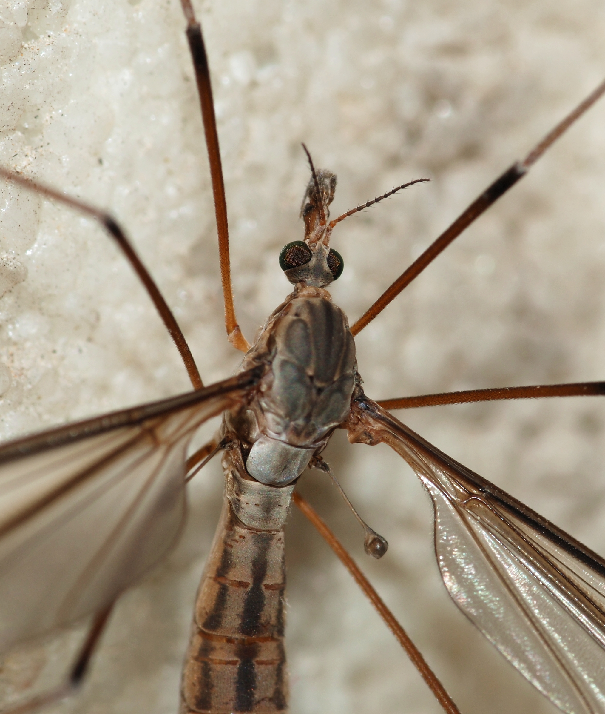 Unknown Tipulid fly